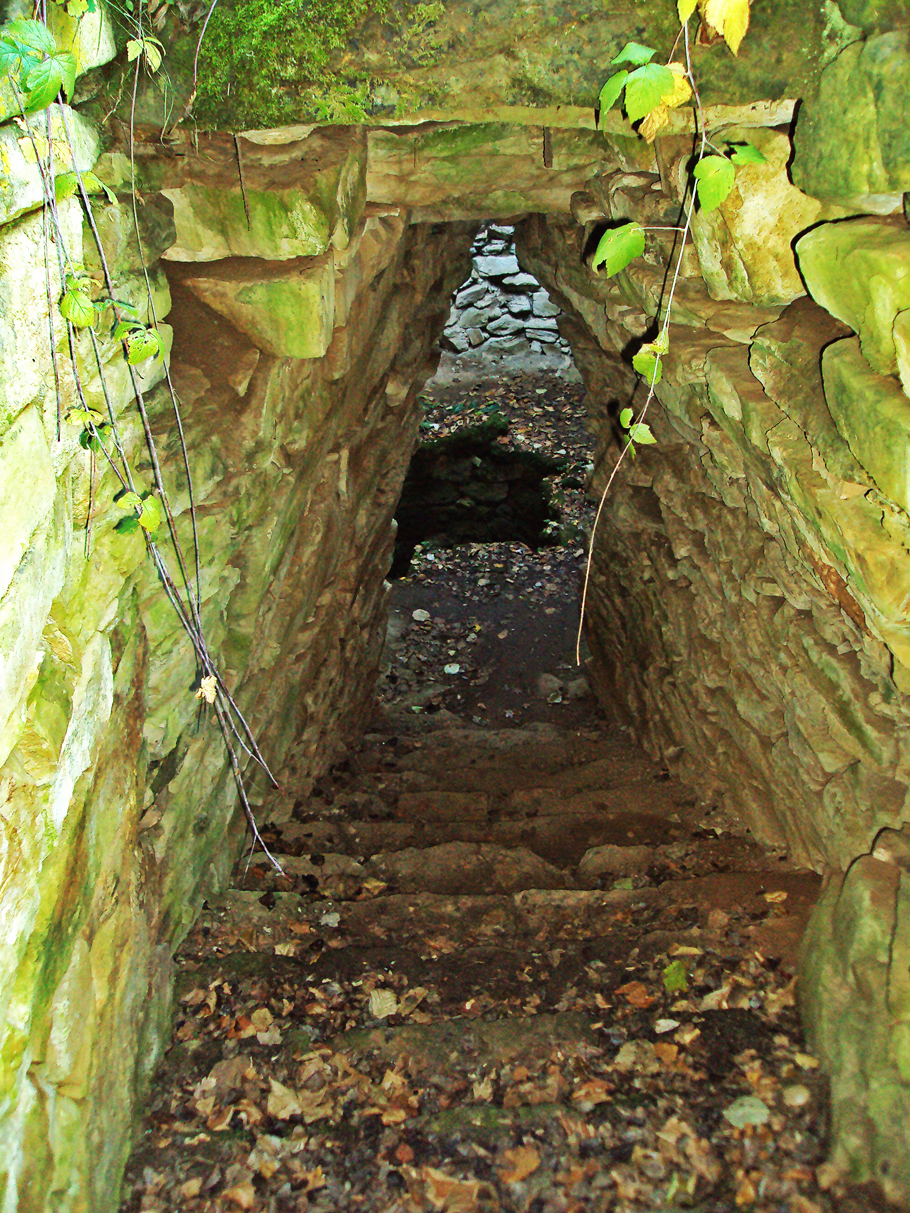 Стълбището